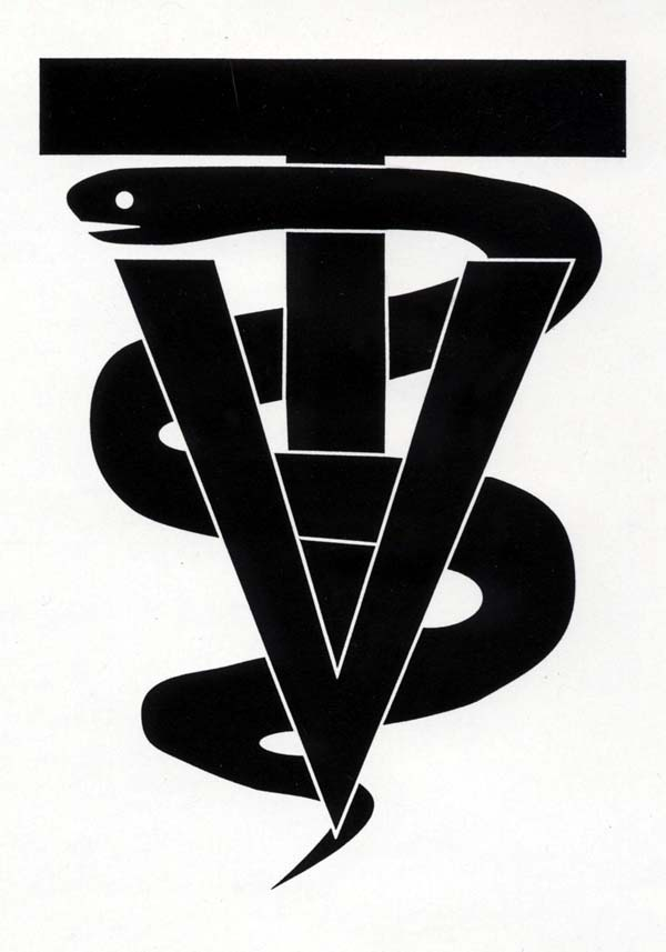 A logo from the National Association of Veterinary Technicians in America (NAVTA)